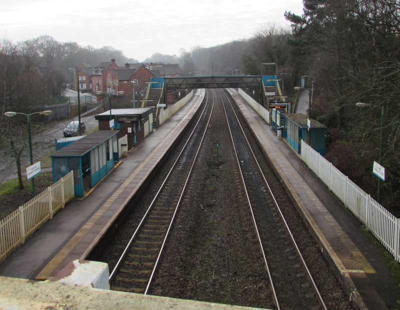 South through Lisvane & Thornhill railway station, Cardiff